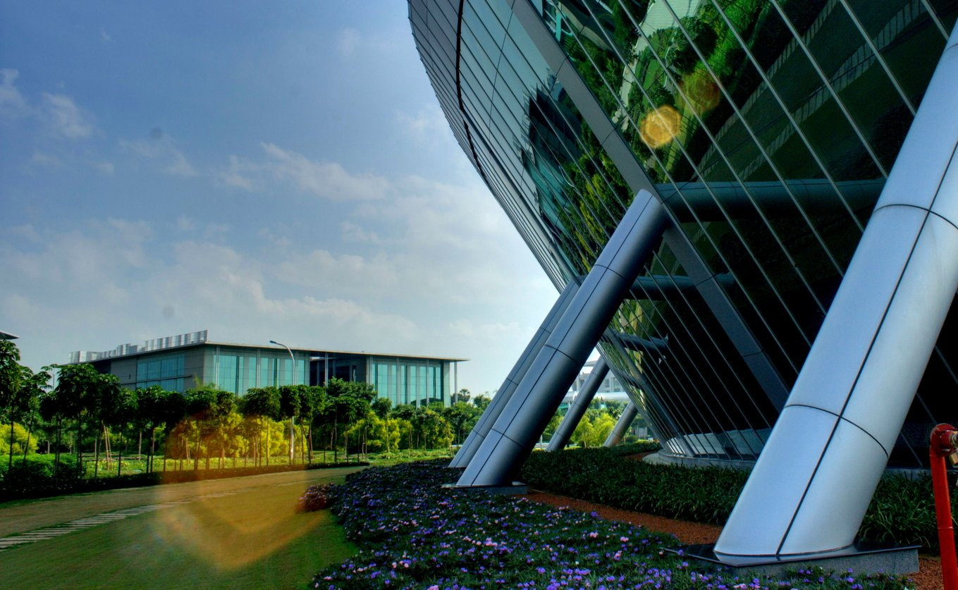 Infosys, Mahindra City. Building number in the background and part of building number 3 in the foreground.